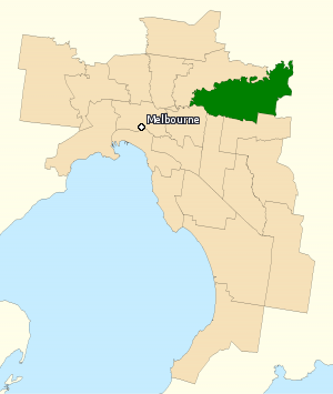 This image incorporates data that is: © Commonwealth of Australia (Australian Electoral Commission) 2009 Division of Menzies 2010